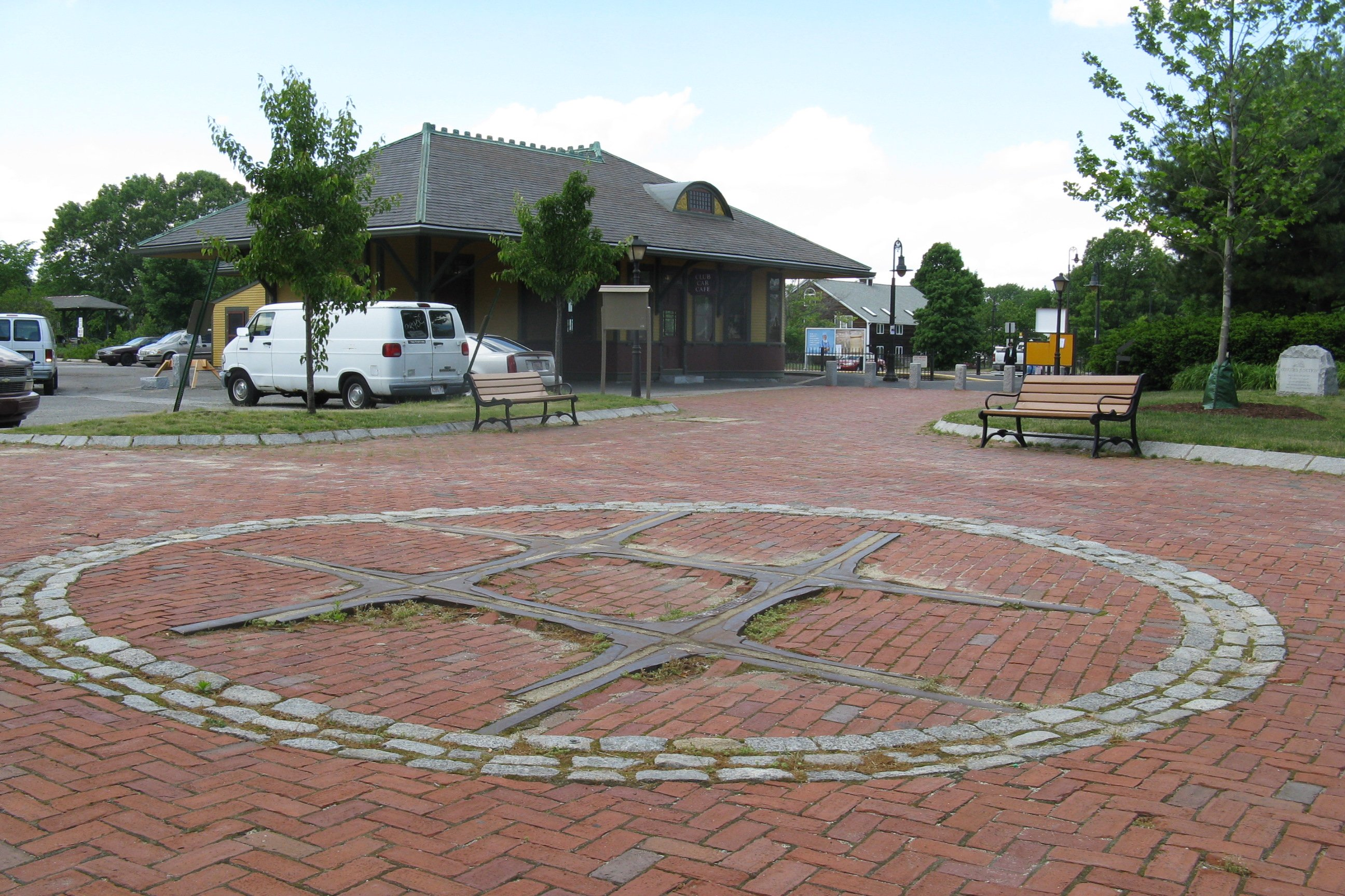 Old track crossing in front of West Concord Depot, West Concord Massachusetts